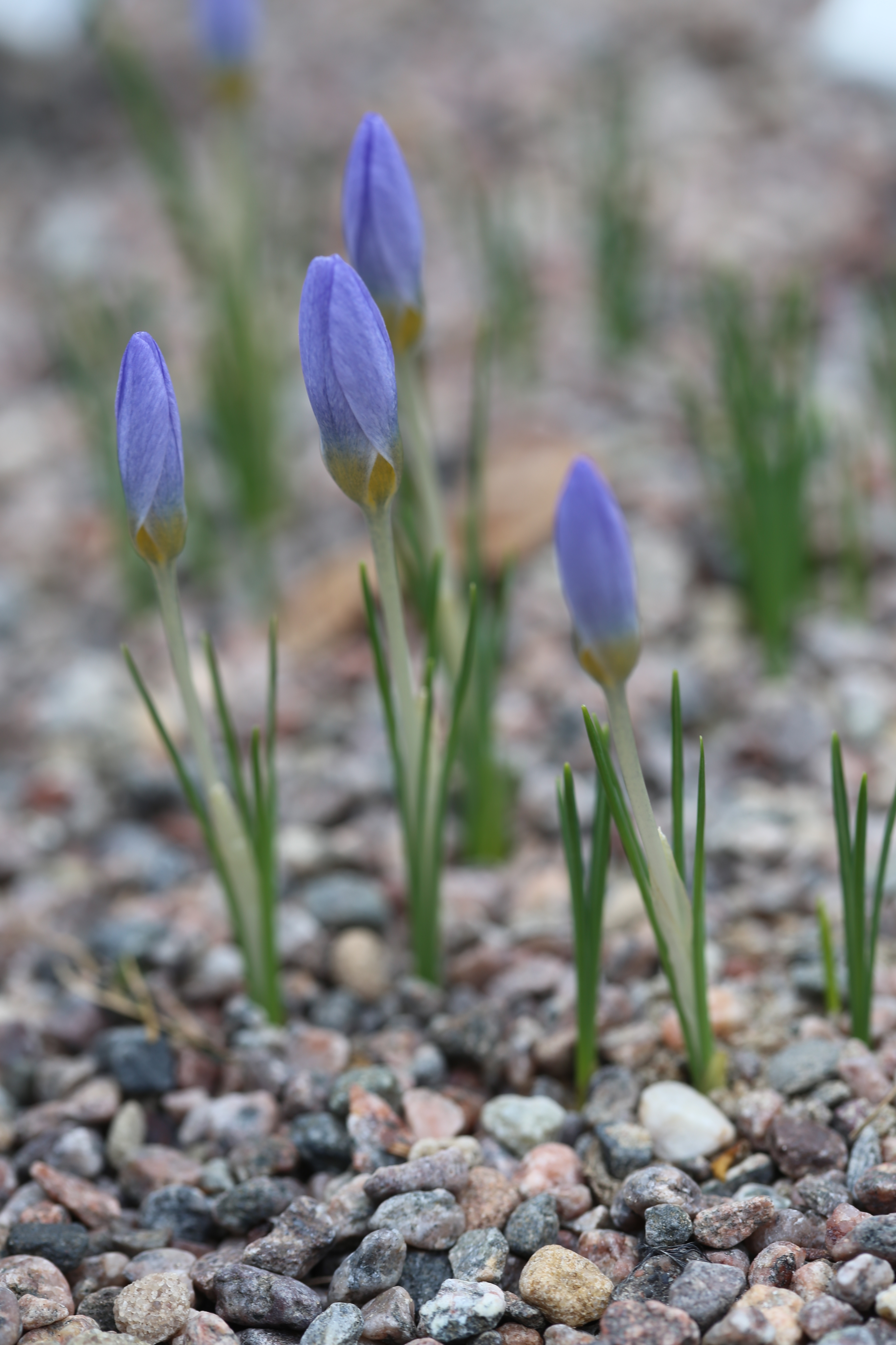 Crocus abantensis in Gothenburg Botanical Garden in 2015. Plant id: 1992-2115 p W; Sønderh. OS 482